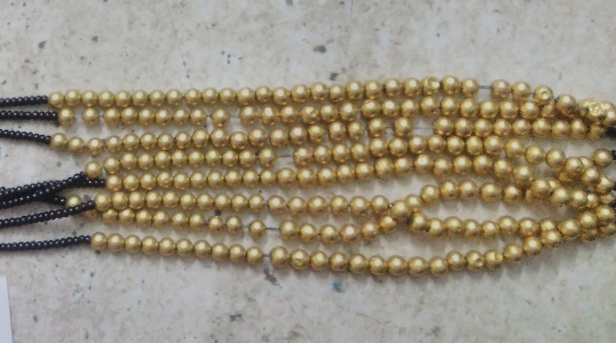 जोधळी पोत